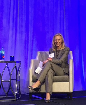 Image of Sonia Arrison